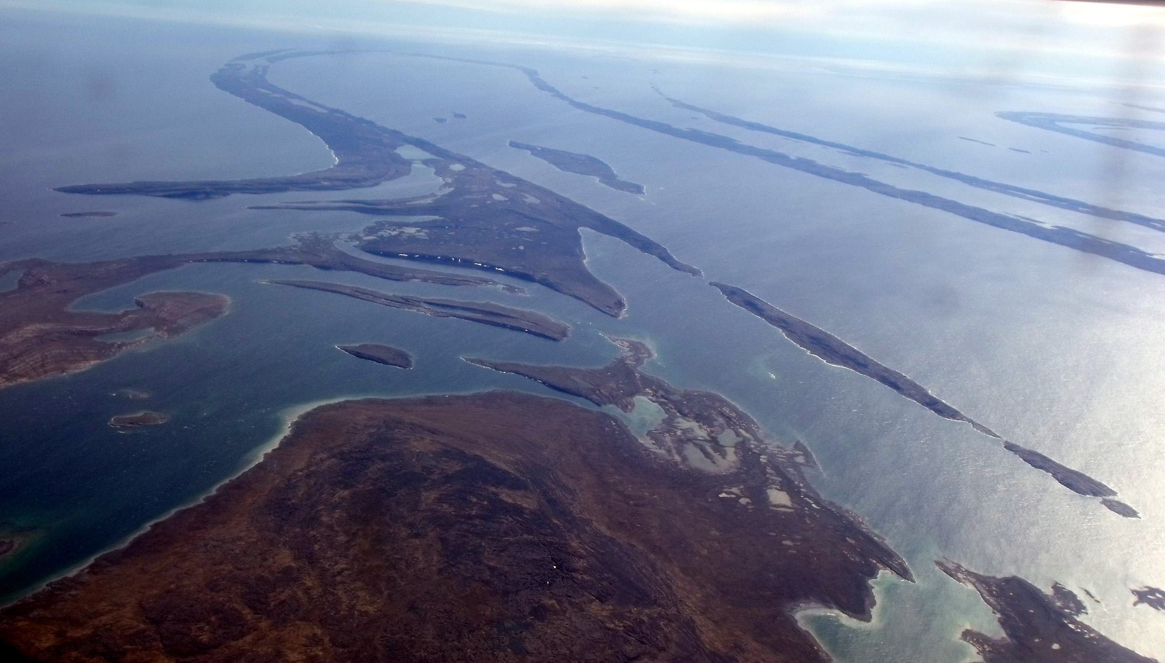 Leaving Sanikiluaq and looking south at some of the most spectacular island-defining geology in the world. The youngest basalt formation is flung like a necklace into the waters of Hudson Bay. The basalt also forms the exterior rim of larger islands when/where out of the salt. The Belcher Islands comprise a series of doubly plunging anticlines large enough to be seen from orbiting satellites.